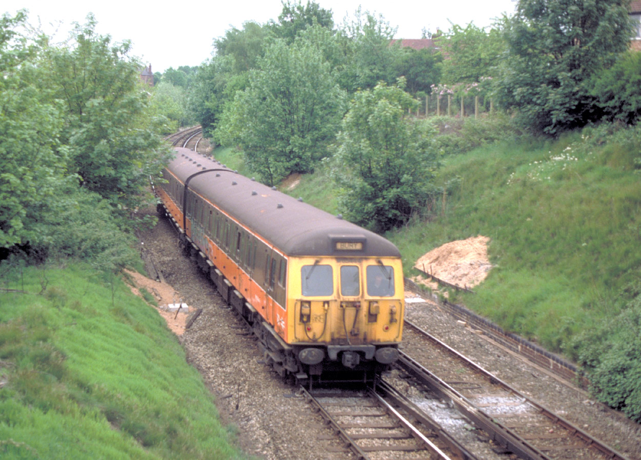 A northbound Class 504 train in northern Manchester as seen just weeks before closure for conversion to the Metrolink light rail system. The preparatory earthworks for Metrolink's overhead wire supports can be seen on both sides of the tracks.